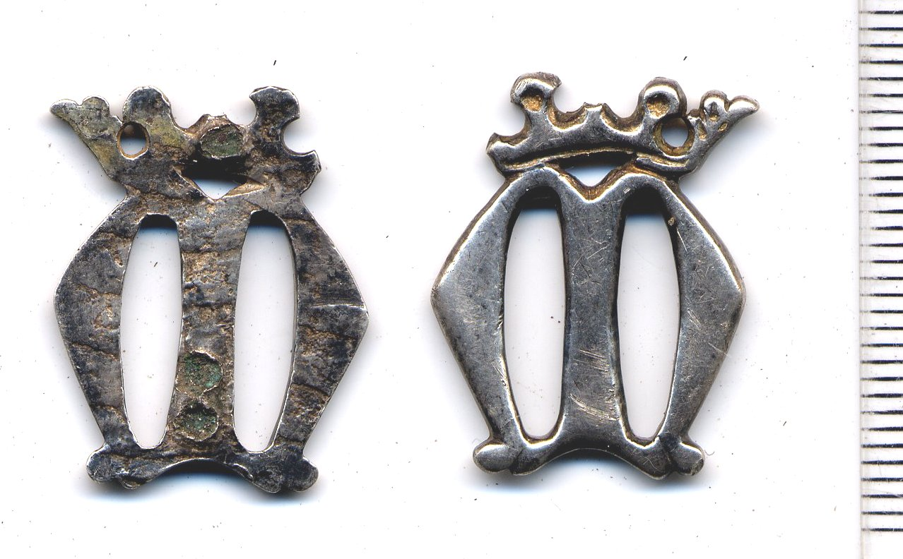 A medieval badge in the form of a crowned, Lombardic letter "M". Badges if this type were commonly produced in base metal in the 14th and 15th centuries to signify devotion to the Virgin Mary. This example is silver and dates from the C15 (Brian Spencer, Pilgrim Souvenirs and Secular badges, Museum of London 1998, pp 155-157). The back is rather roughly finished and has 3 small round scars from the fitting. One is behind the centre of the crown & the others are behind the bottom of the centre bar of the M